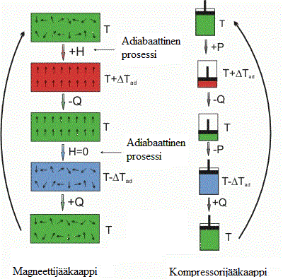 Finnish translation of MCE.gif in wikimedia commons. "Analogy between magnetic refrigeration and vapor cycle or conventional refrigeration"